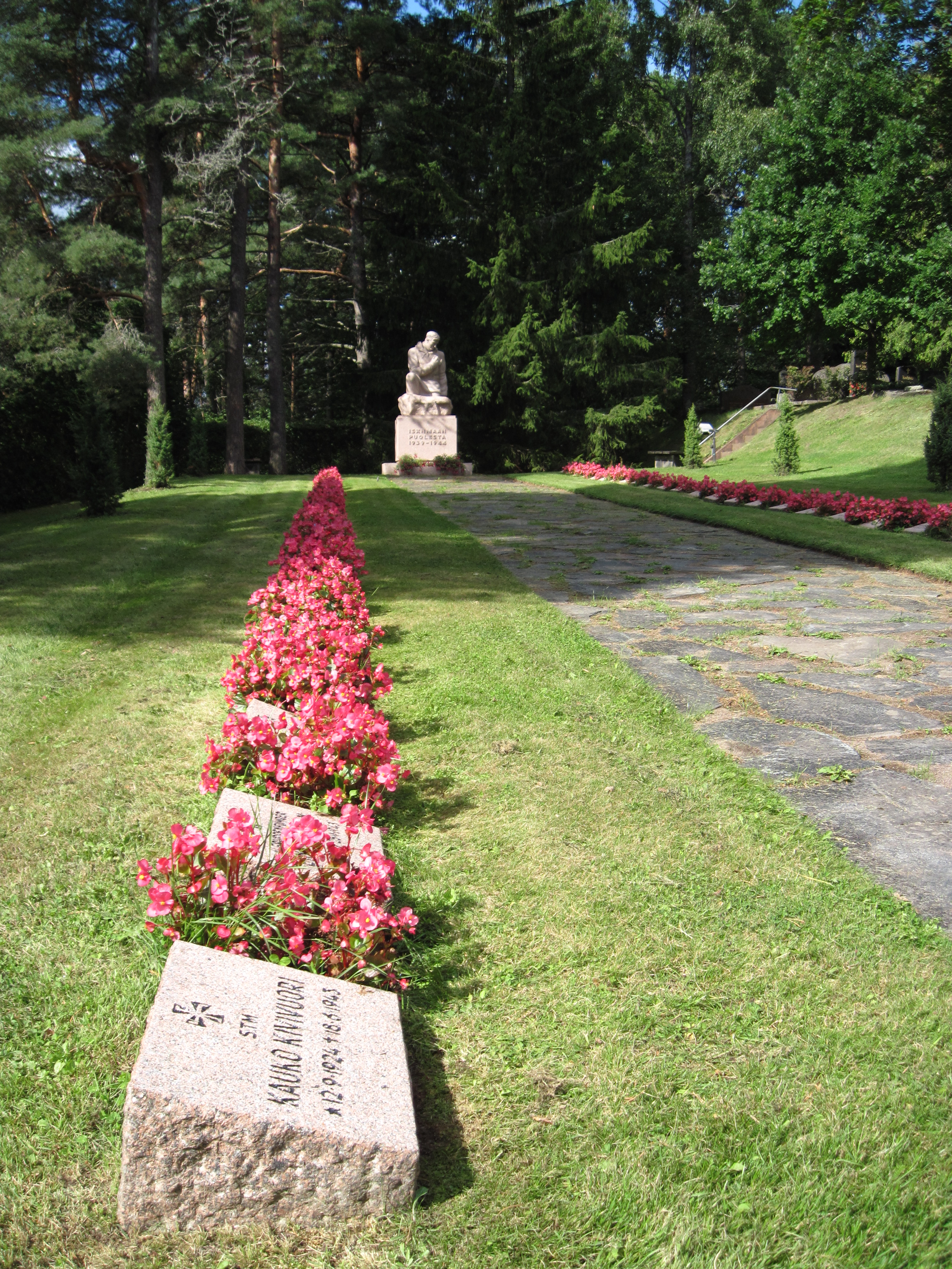 Military cemetary at church in Nummi, Finland